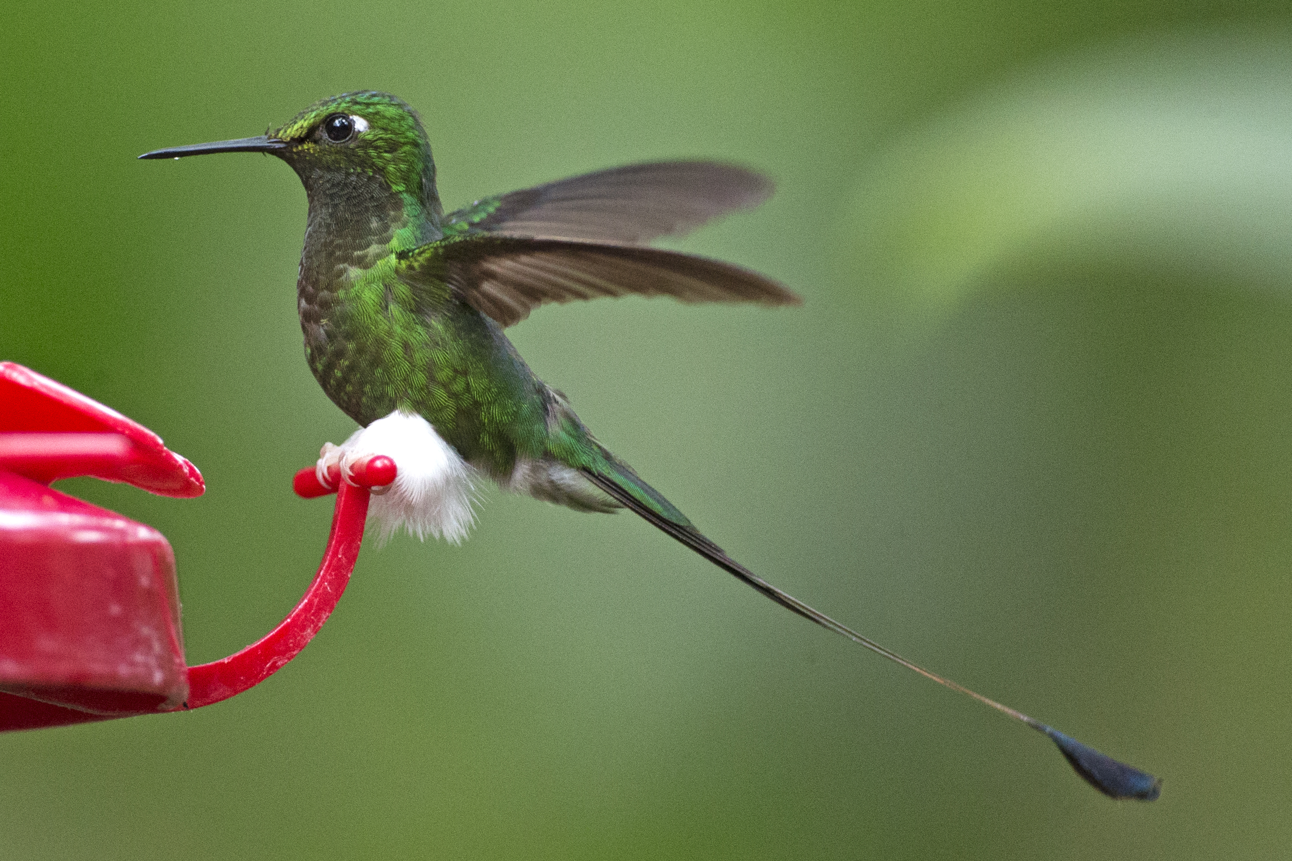 Booted Racket-tail Ocreatus underwoodii Ocreatus underwoodii melanantherus Tandayapa (north west of Quito) Ecuador 10th. August 2015 CF2P3524